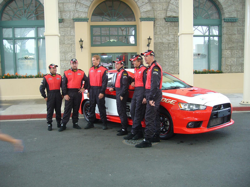 Hollywood Stunt Driver's The Hell Drivers at Warner Bros. Movie World on the Gold Coast, Australia.